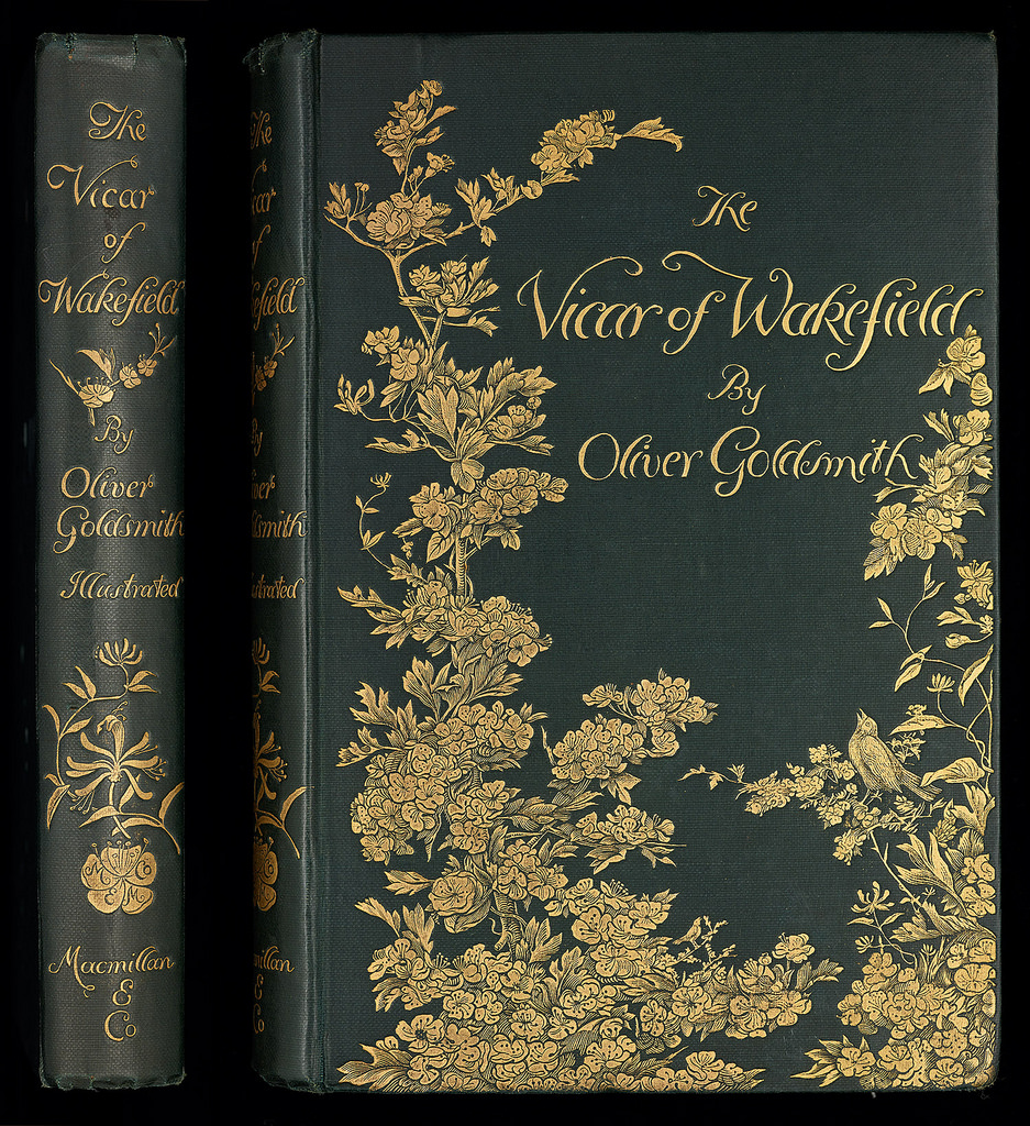 File name: ILS-1291269Binder label: G 740 GOL 1890Title: The Vicar of WakefieldDate issued: 1890Genre: Book coversNotes: (Author) Oliver GoldsmithCollection: Victorian publishers' bookbindingsLocation: National Library NZ on The Commons collectionsRights: No known copyright restrictions.